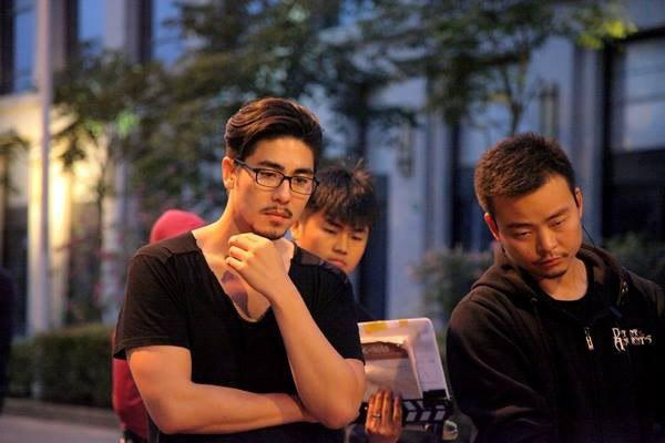 Director Sooeung 'Chuck' Chae on set for the filming of "Lapse" (2018)